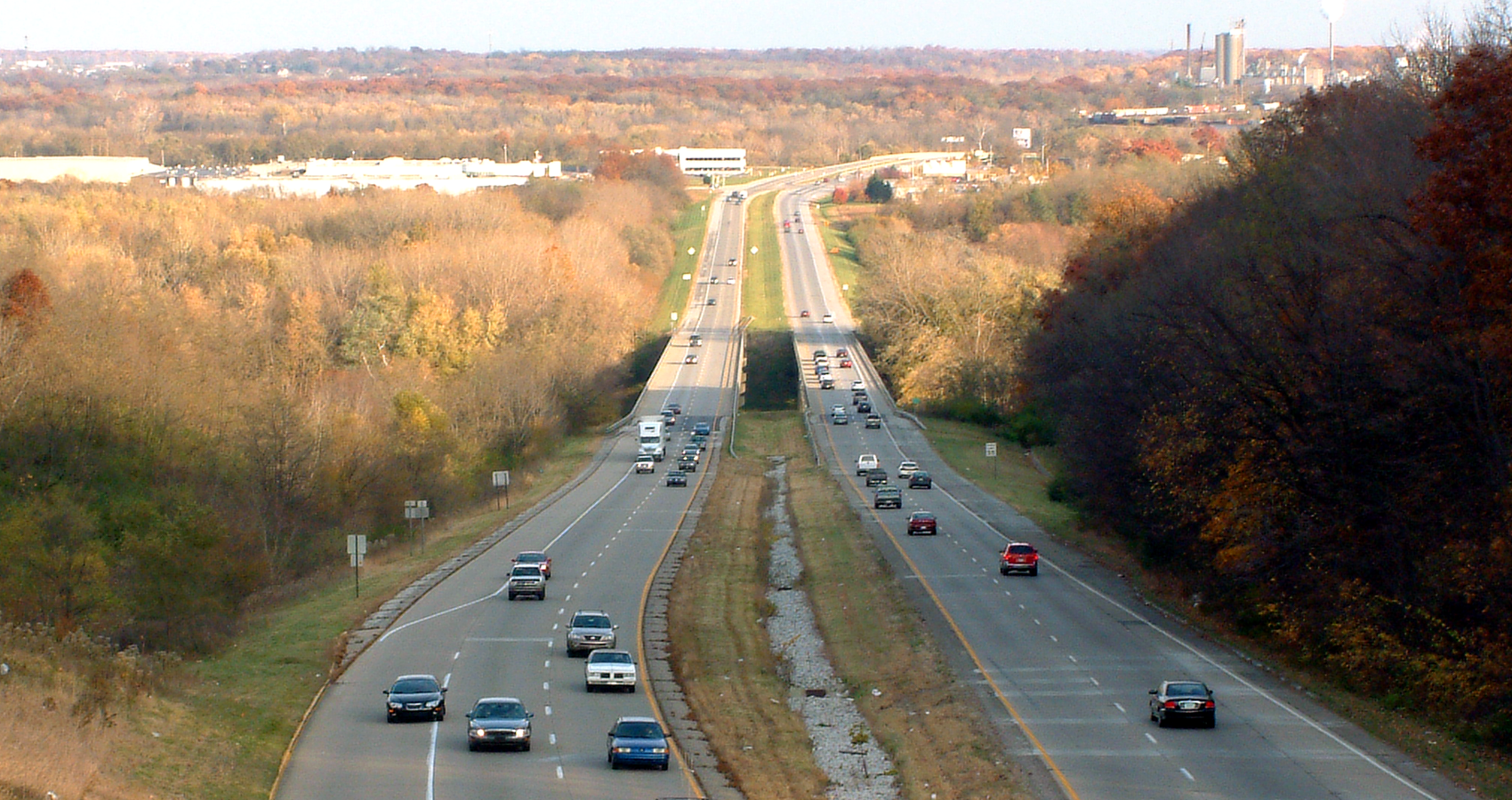 U.S. Route 52 in 2007, crossing the Wabash River between the cities of Lafayette and West Lafayette in Tippecanoe County, Indiana. This photo, looking east, was taken from the overpass at the north end of State Road 443 (now Happy Hollow Road). Highway 52 was rerouted in 2013 to follow a different path through the community, so the pictured stretch of road is now known simply as Sagamore Parkway.